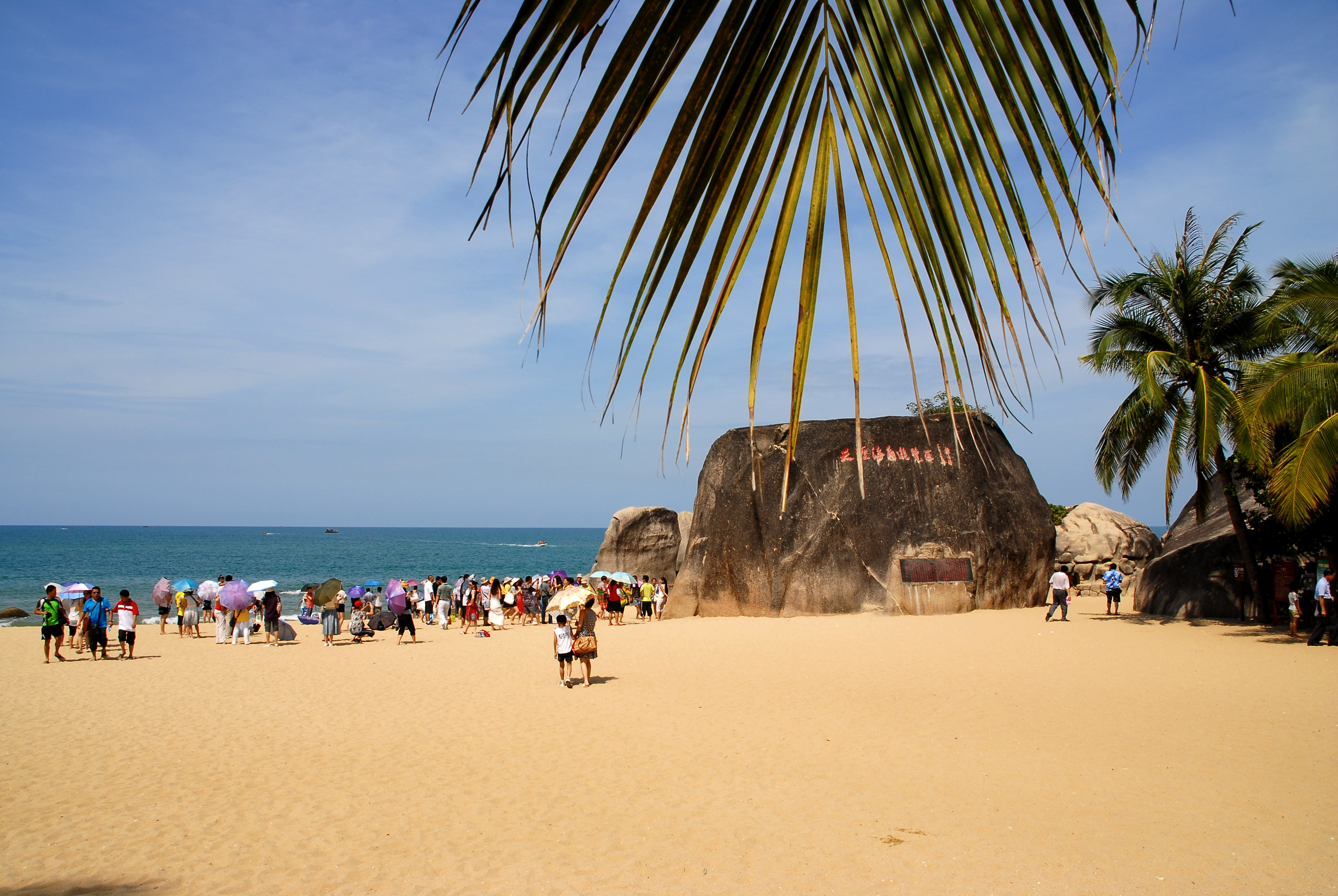 Tianya Haijiao, (literally "Edges of the heaven, corners of the sea"), Hainan province, People's Republic of China.